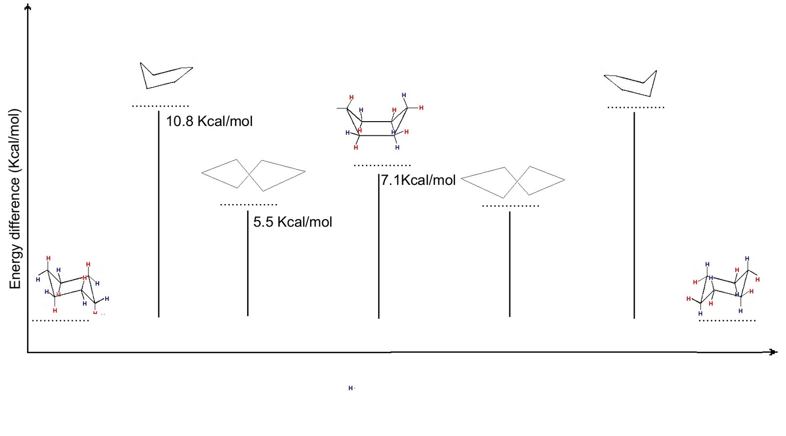 Cyclohexane Conformers